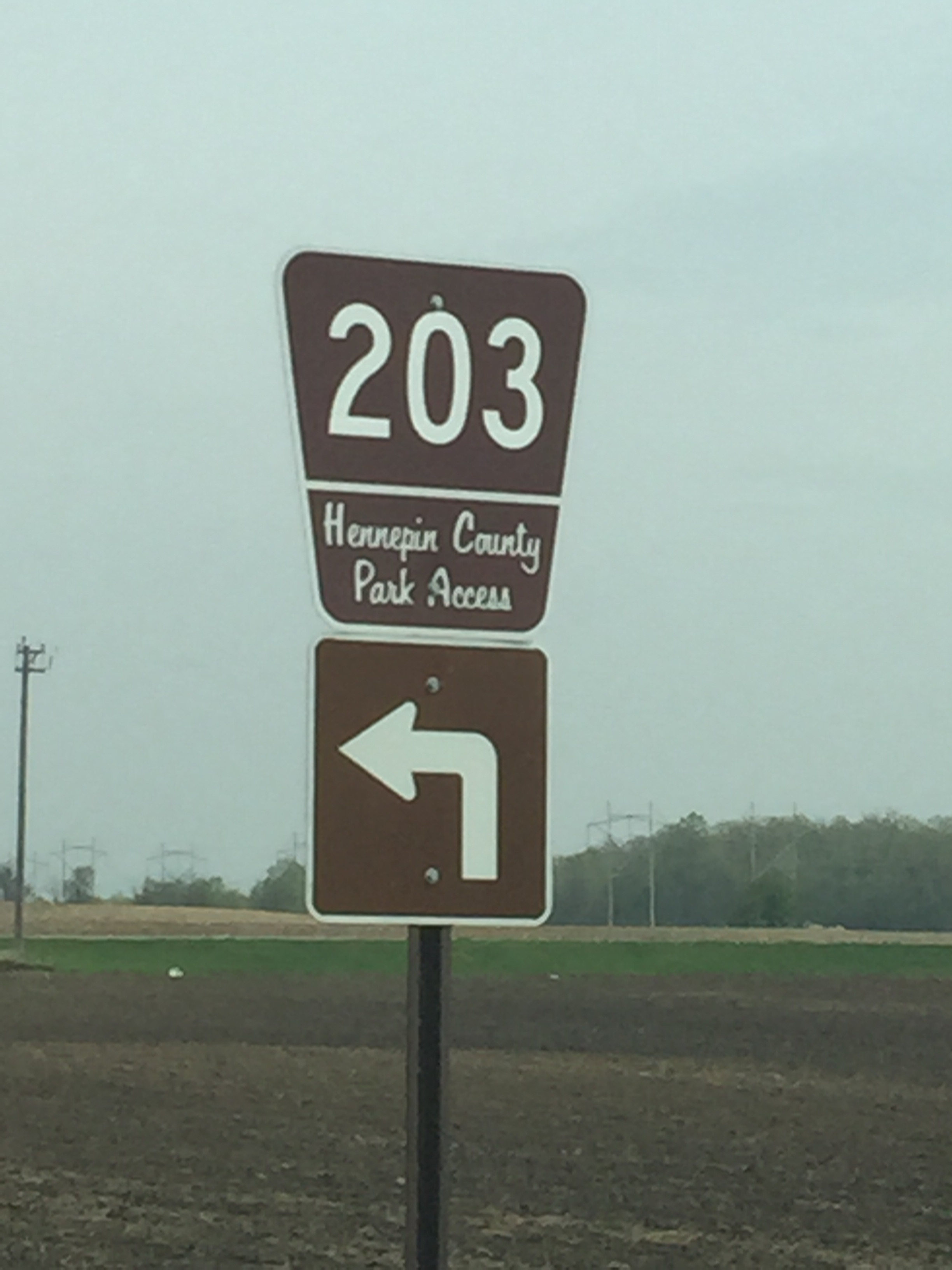 Guidance sign for a road in Hennepin County, Minnesota.